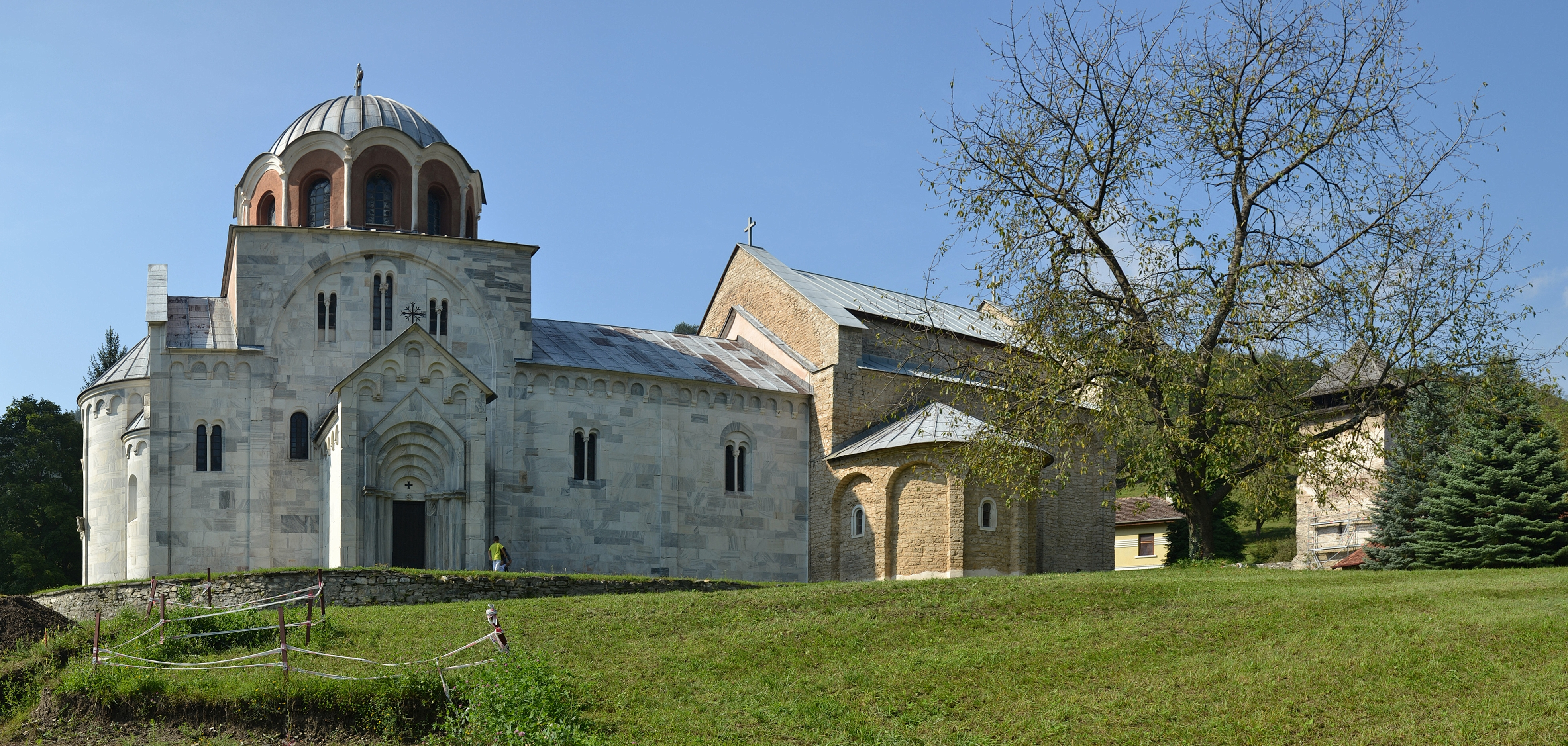 Studenica monastery, Serbia